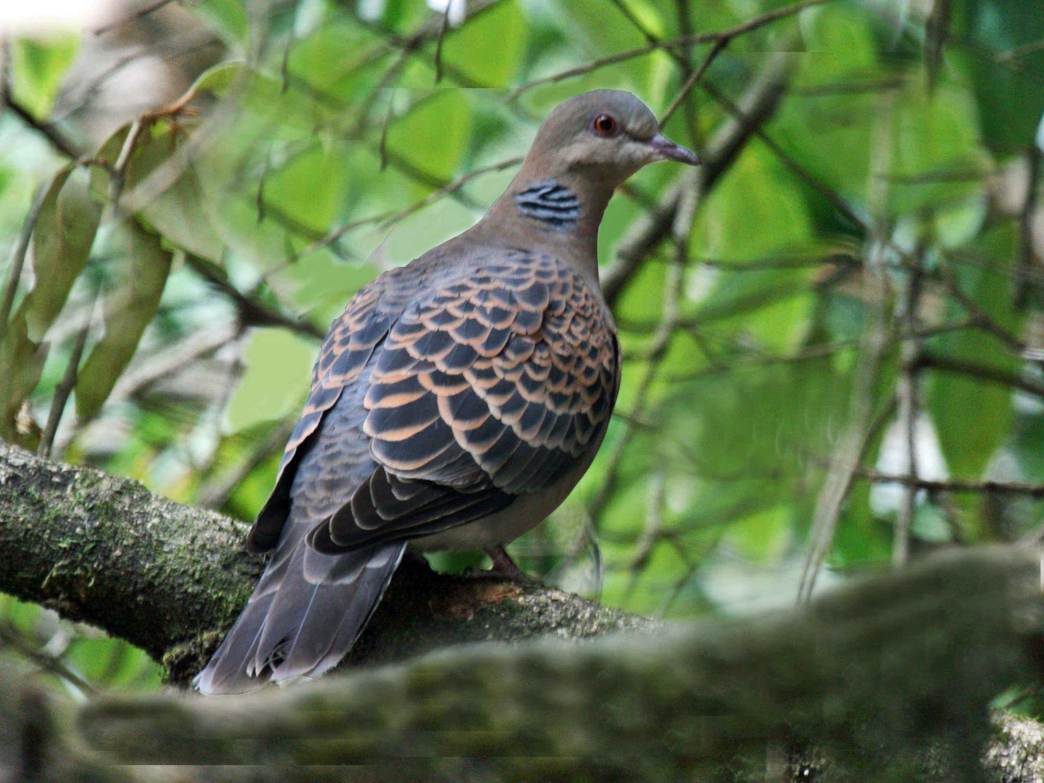 Oriental Turtle Dove (Streptopelia orientalis) - Nepal